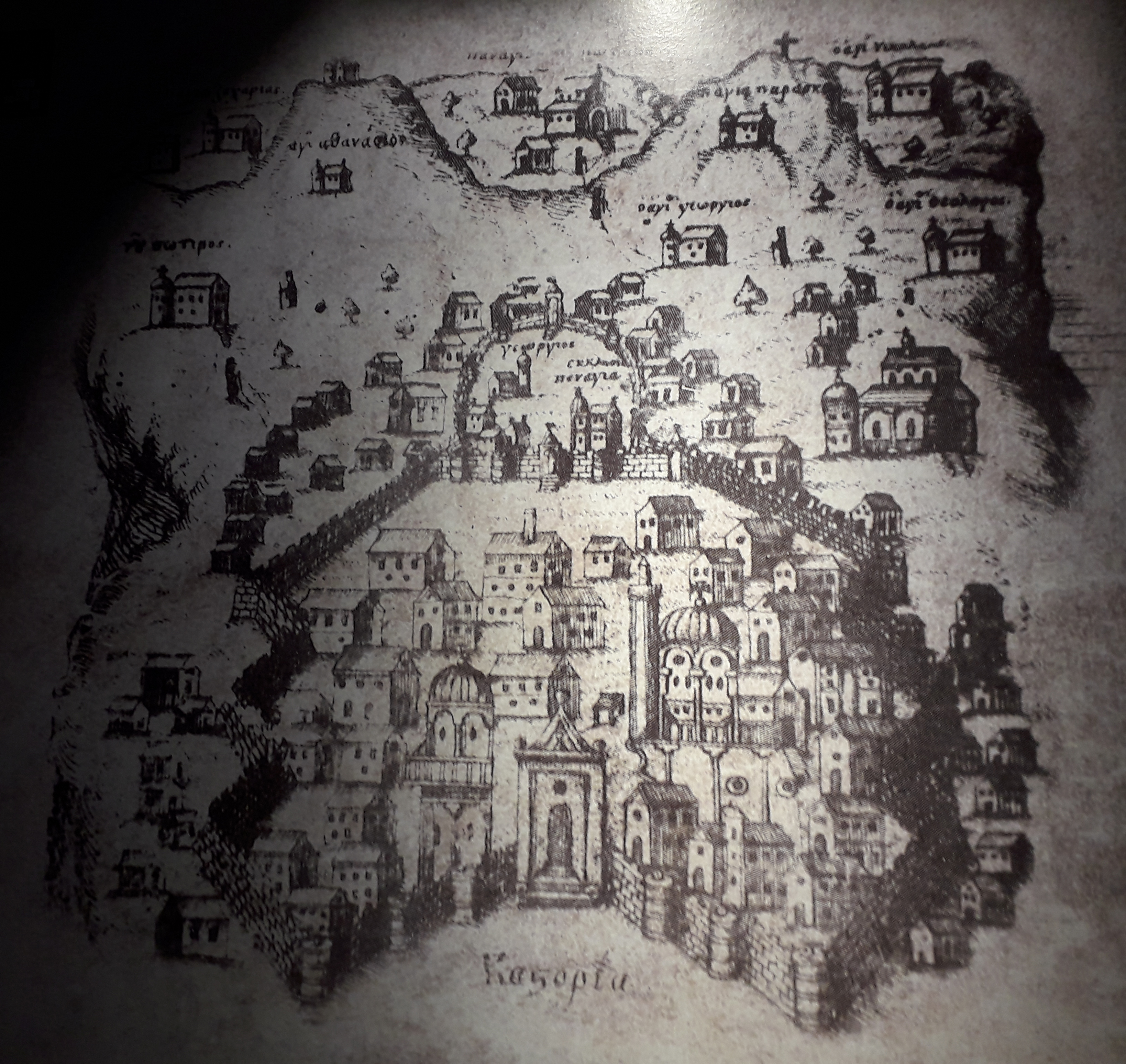 Kostur map ottoman period